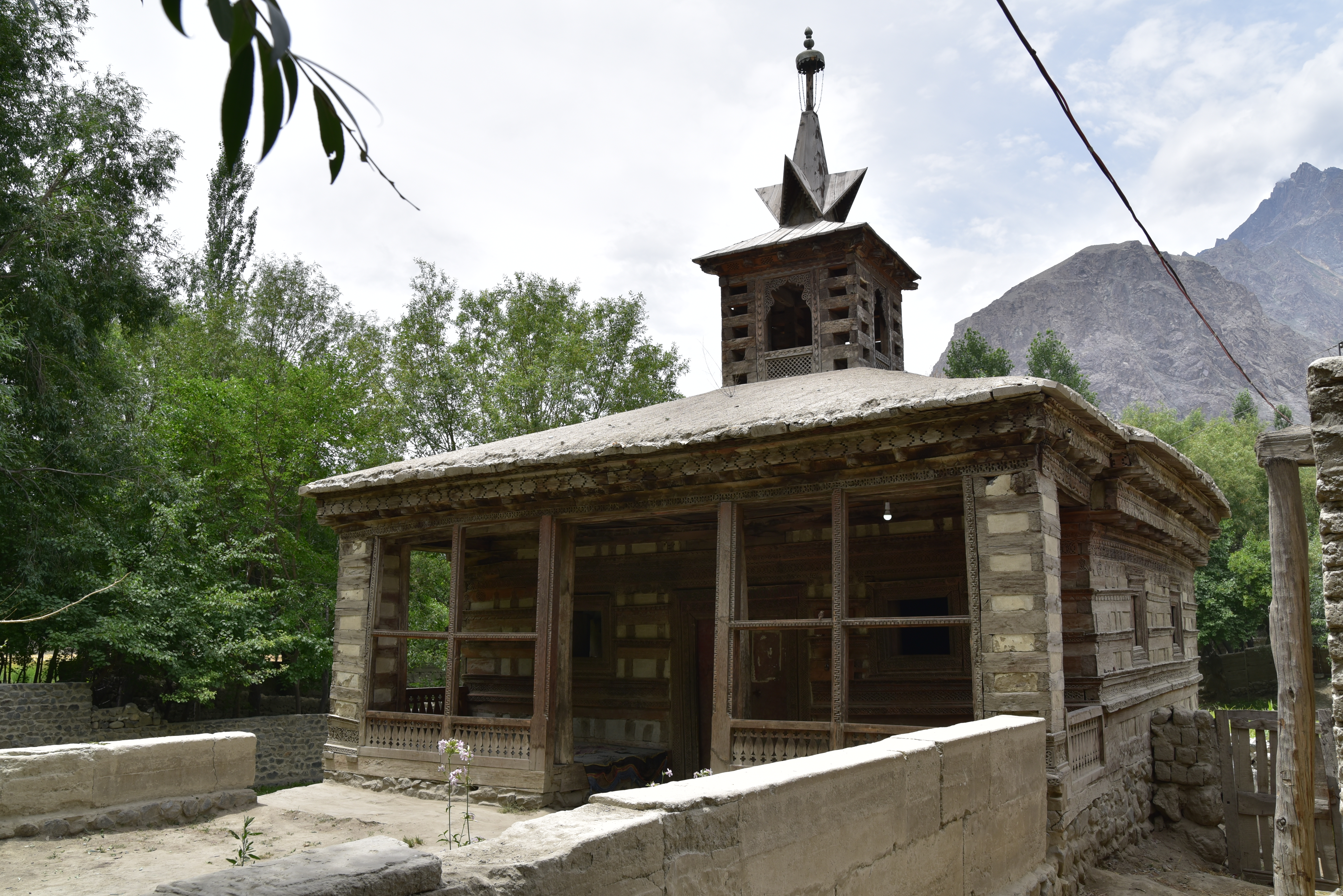 Amburik Mosque This is a photo of a monument in Pakistan identified as the GB-19